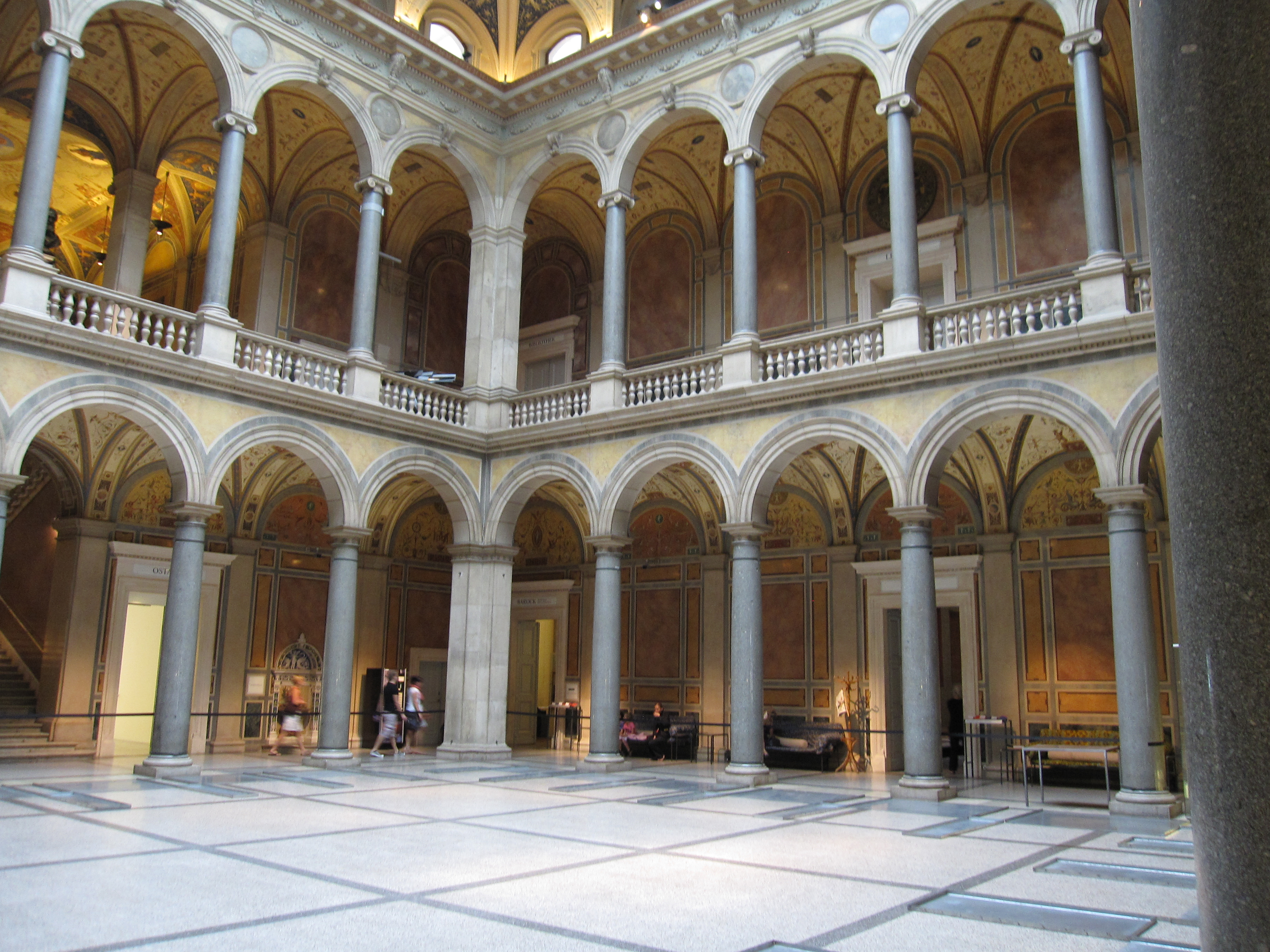 Austrian Museum of Applied Arts / Contemporary Art (MAK)